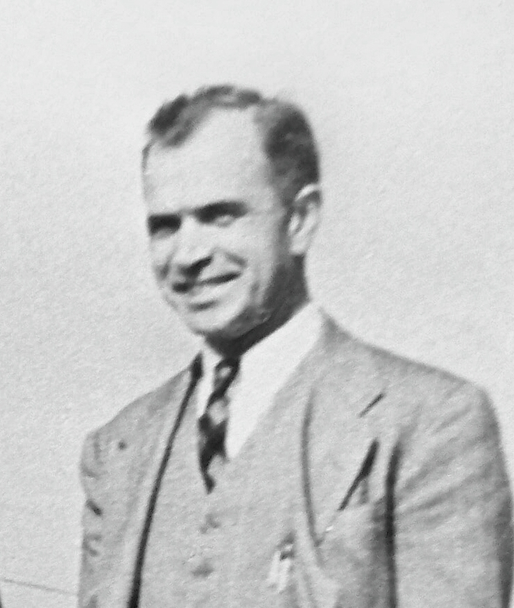 Aeronautical engineer Tubal Claude Ryan, 1930s.